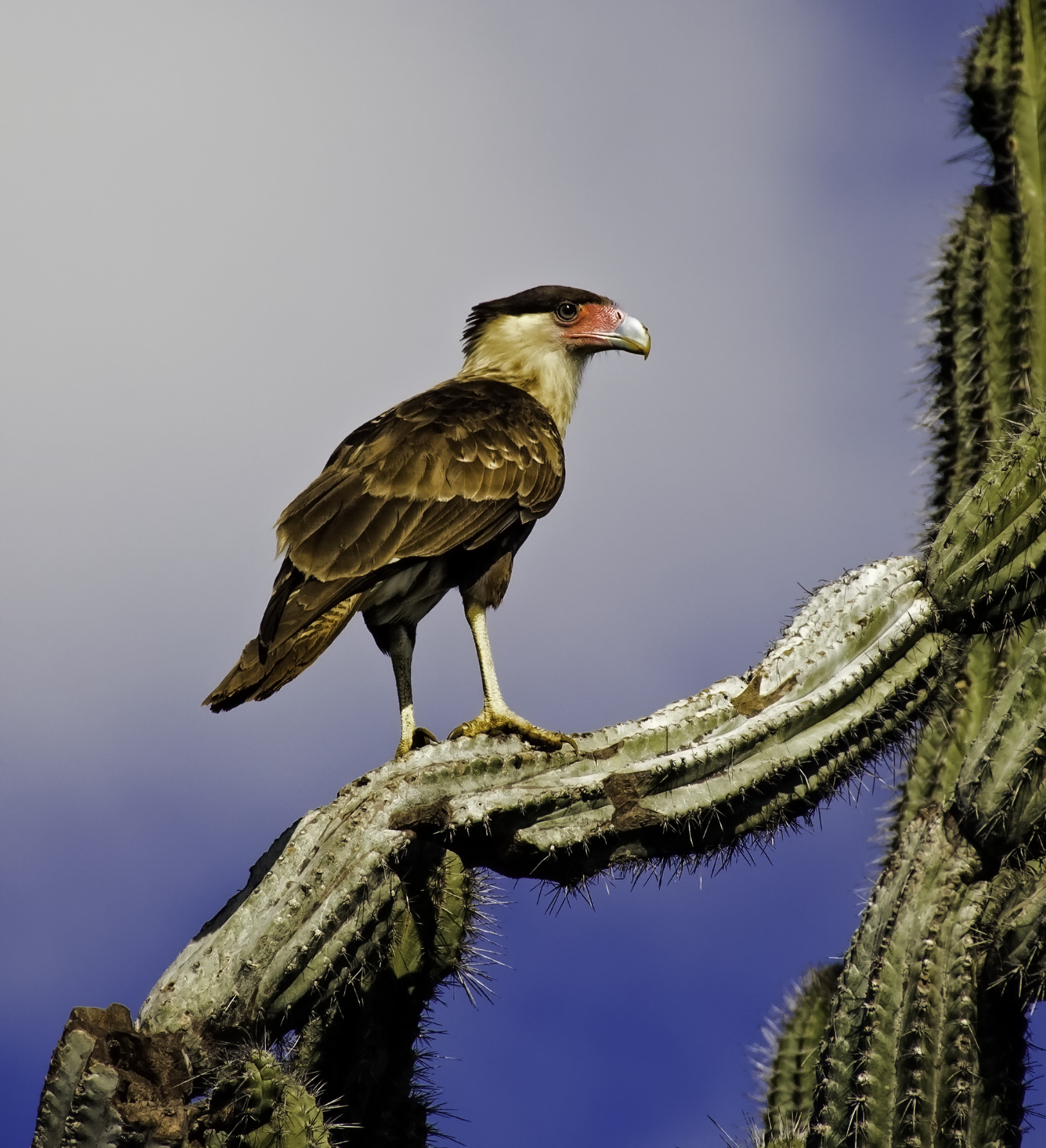 Southern caracara on Bonaire, BES Islands